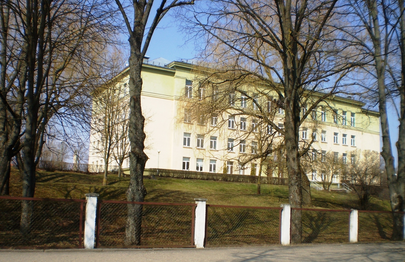 Kėdainiai collegium of Jonušas Radvila. Lithuania